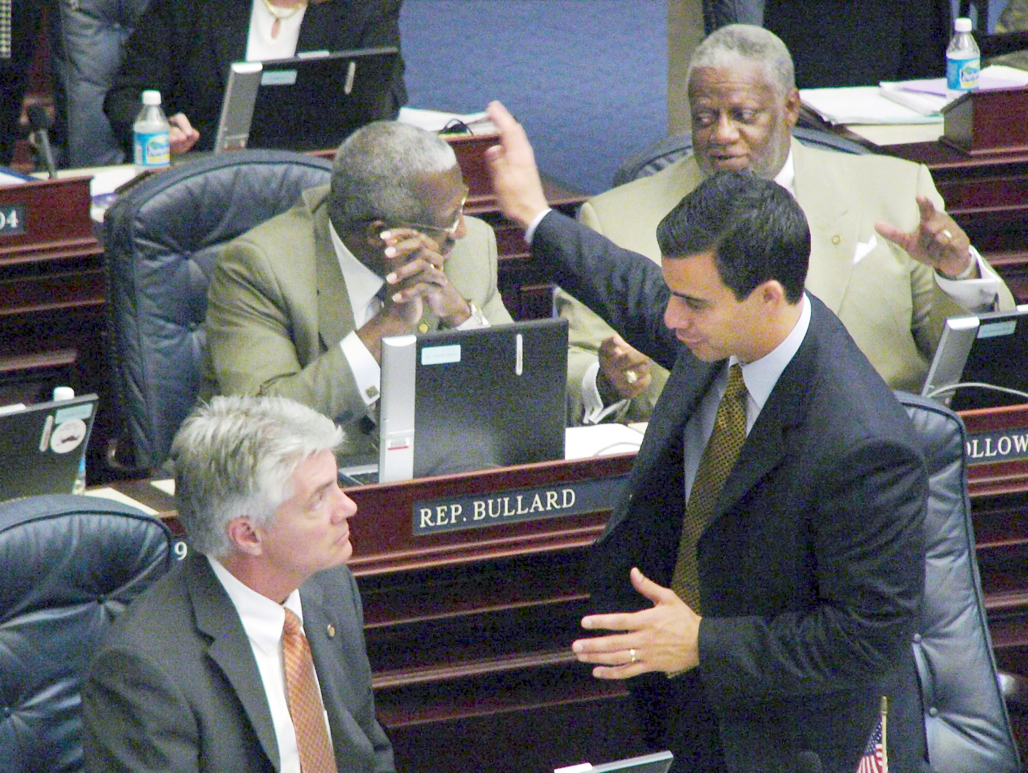 Rep. Michael Grant, R-Port Charlotte, left, confers with Rep. Marcelo Llorente, R-Miami, right, on the House floor during the 2005 Legislature in Tallahassee, Florida. Top center shows Rep. Edward Bullard, D-Miami, as he confers with Rep. Wilbert Holloway, D-Miami Gardens, top right.